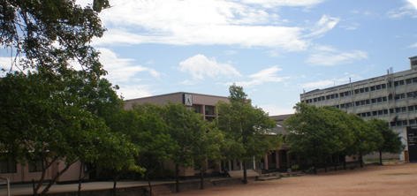 Property of Thurstan College Colombo